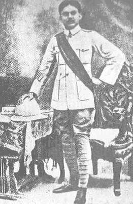 Nazrul Joined the British Indian army in 1917 and left in 1920